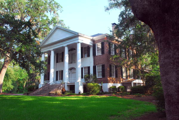 Local call number: DG00364 Title: The Call-Collins House, The Grove: Tallahassee, Florida Date: August 2011 General note: Territorial governor Richard Keith Call built The Grove in the 1820s and 1830s. The Grove was home to members of the Call and Collins families until 2009. The Florida Department of State's Division of Historical Resources is currently restoring The Grove and plans to open the home to the public as a museum. Physical descrip: 1 digital image - col. Series Title: Digital collection Repository: State Library and Archives of Florida, 500 S. Bronough St., Tallahassee, FL 32399-0250 USA. Contact: 850.245.6700. Persistent URL: Visit Florida Memory to learn more about The Grove and the Call-Collins families.